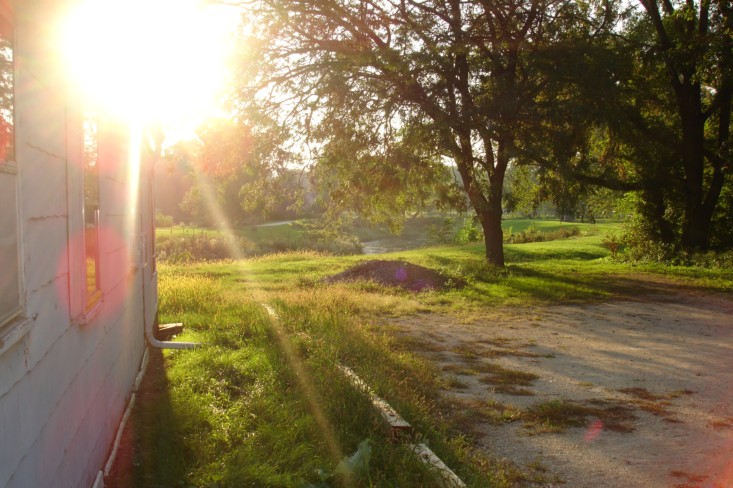 The sun sets over Northern Illinois University as the Kishwaukee River meanders its way along in the background.